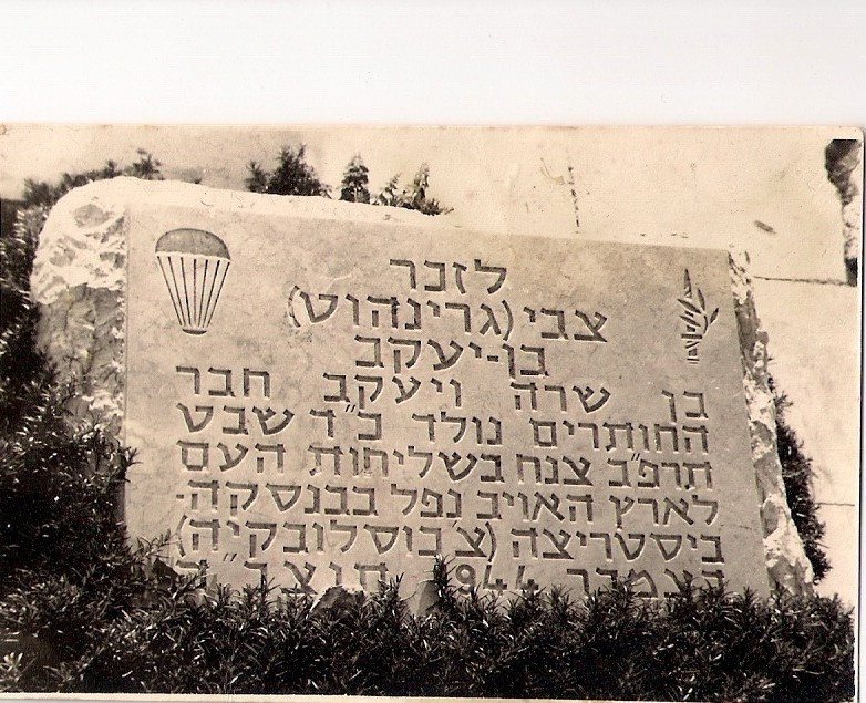 memory of Zvi Ben-Yaakov fell soil occupied in Slovakia